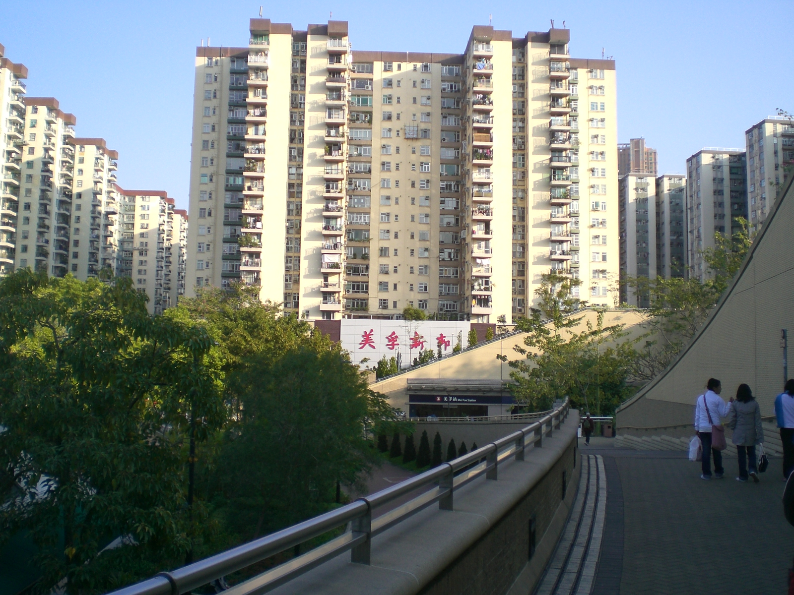 Mei Foo Sun Chuen